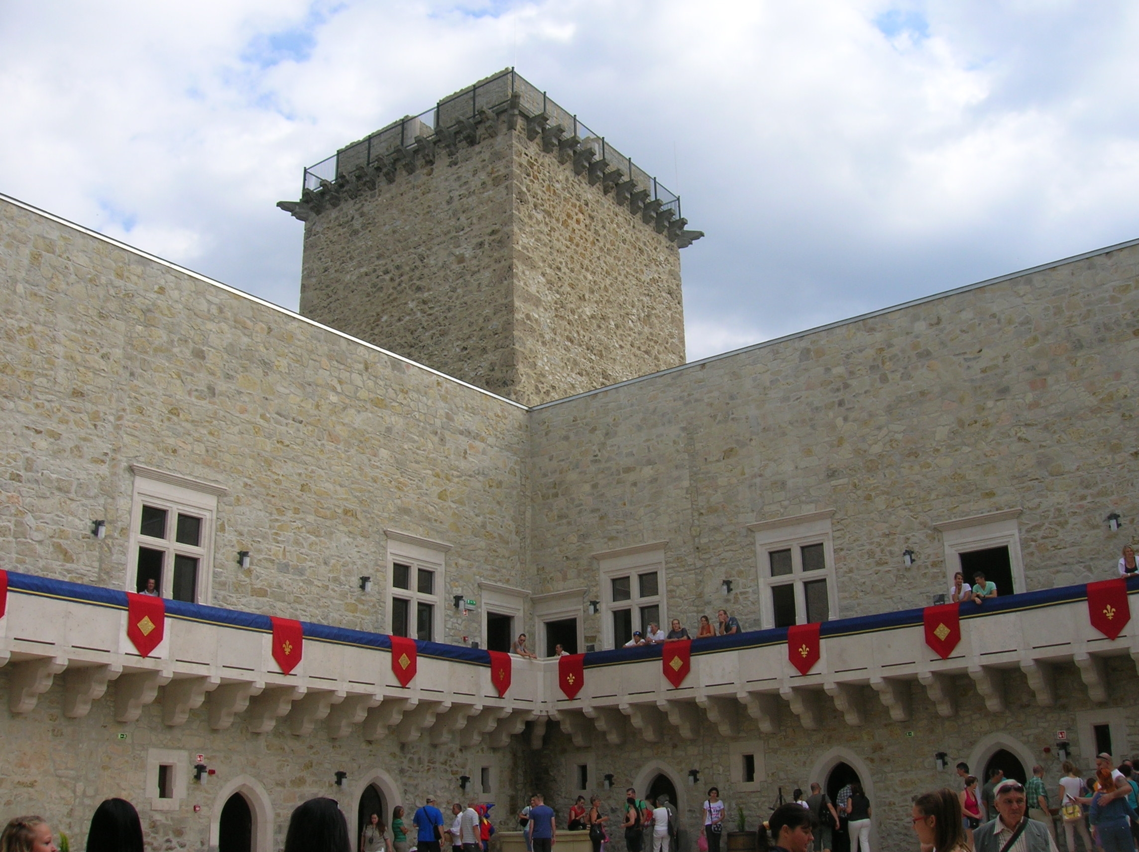 Inner courtyard of the Castle of Diósgyőr